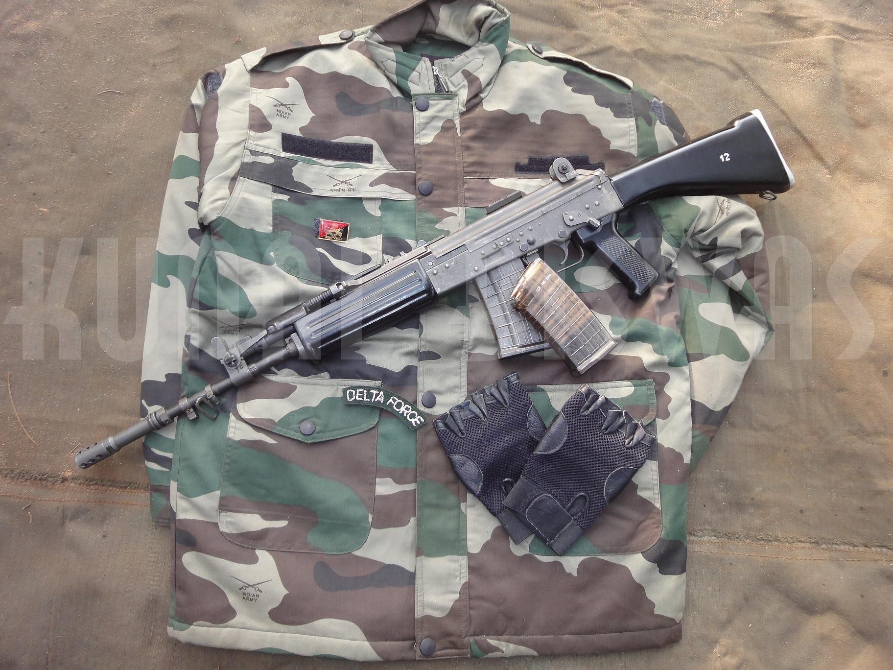 Insas Rifle 5.56mm 1B1 chambered for 5.56 x 45mm SS109 Rounds.